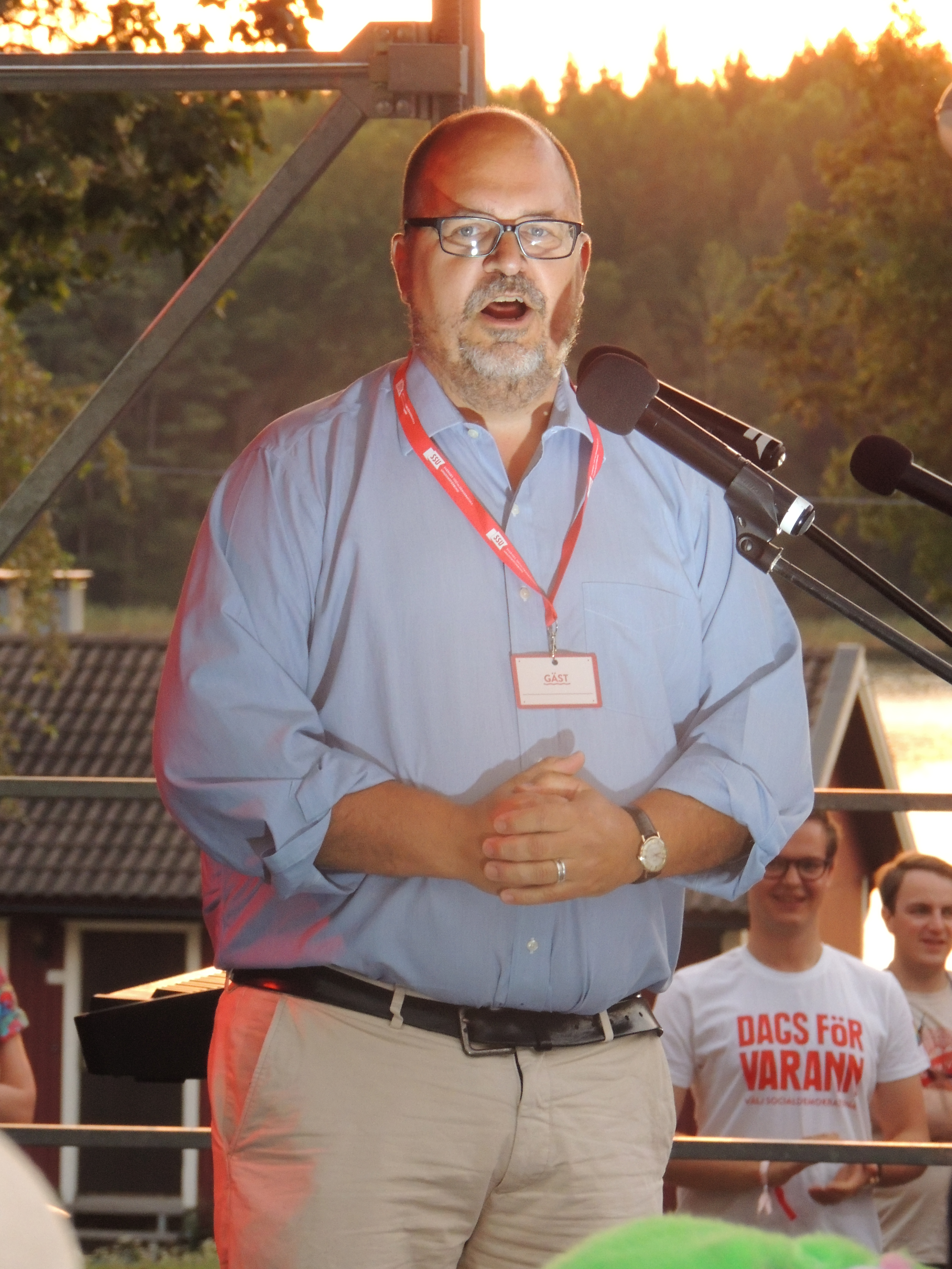 Karl-Petter Thorwaldsson at the Swedish Social Democratic Youth League's general election camp 2014